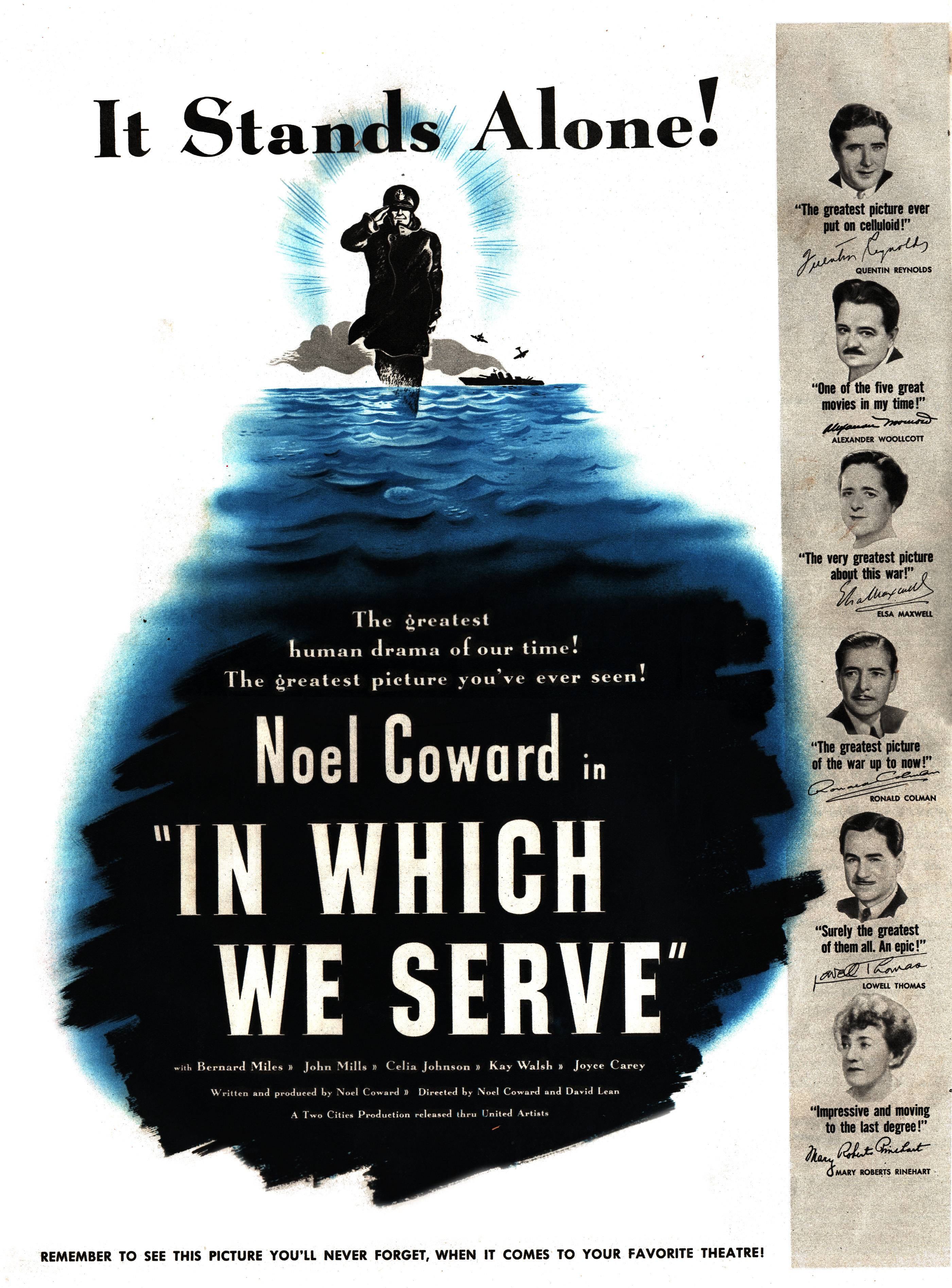 In Which We Serve 1943 American magazine advertisement for the 1942 British film. Advertisement does not contain any stills from the film, but consists of a painting with drawings of the actors.